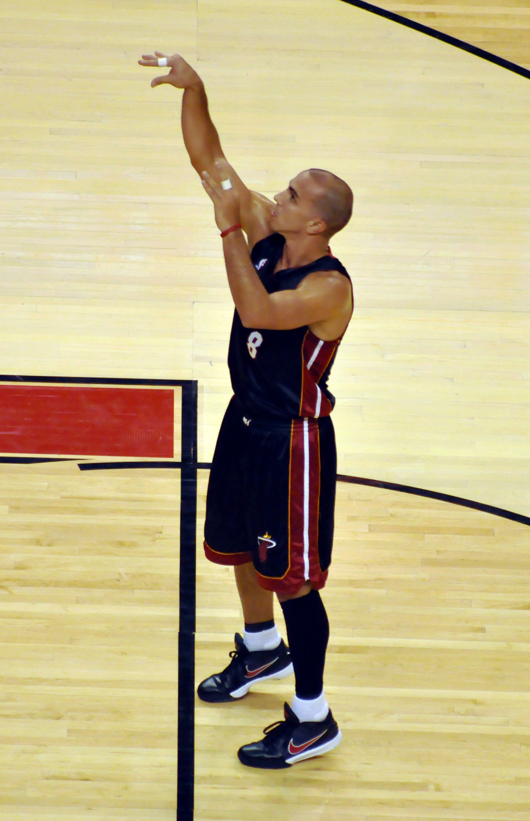 Carlos Arroyo Miami Heat 2009